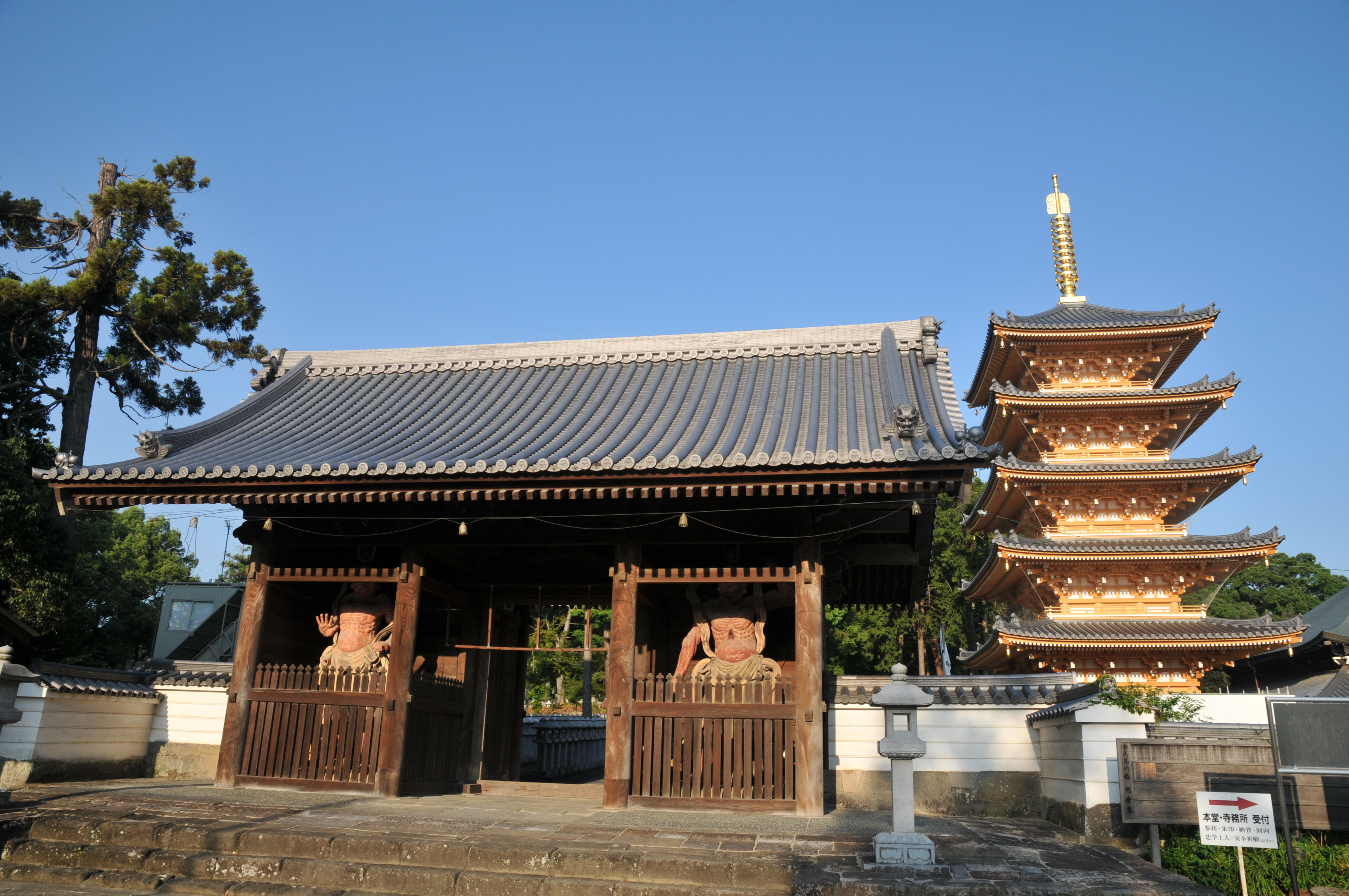 Niō-mon gate and Five-storied Pagoda, Hōnen-ji